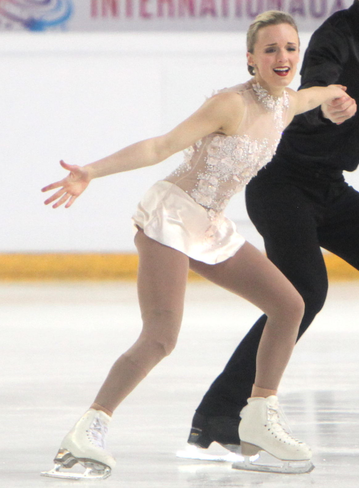 Camille Ruest and Andrew Wolfe during the Pairs Free Skating at the Internationaux de France de Patinage 2018.